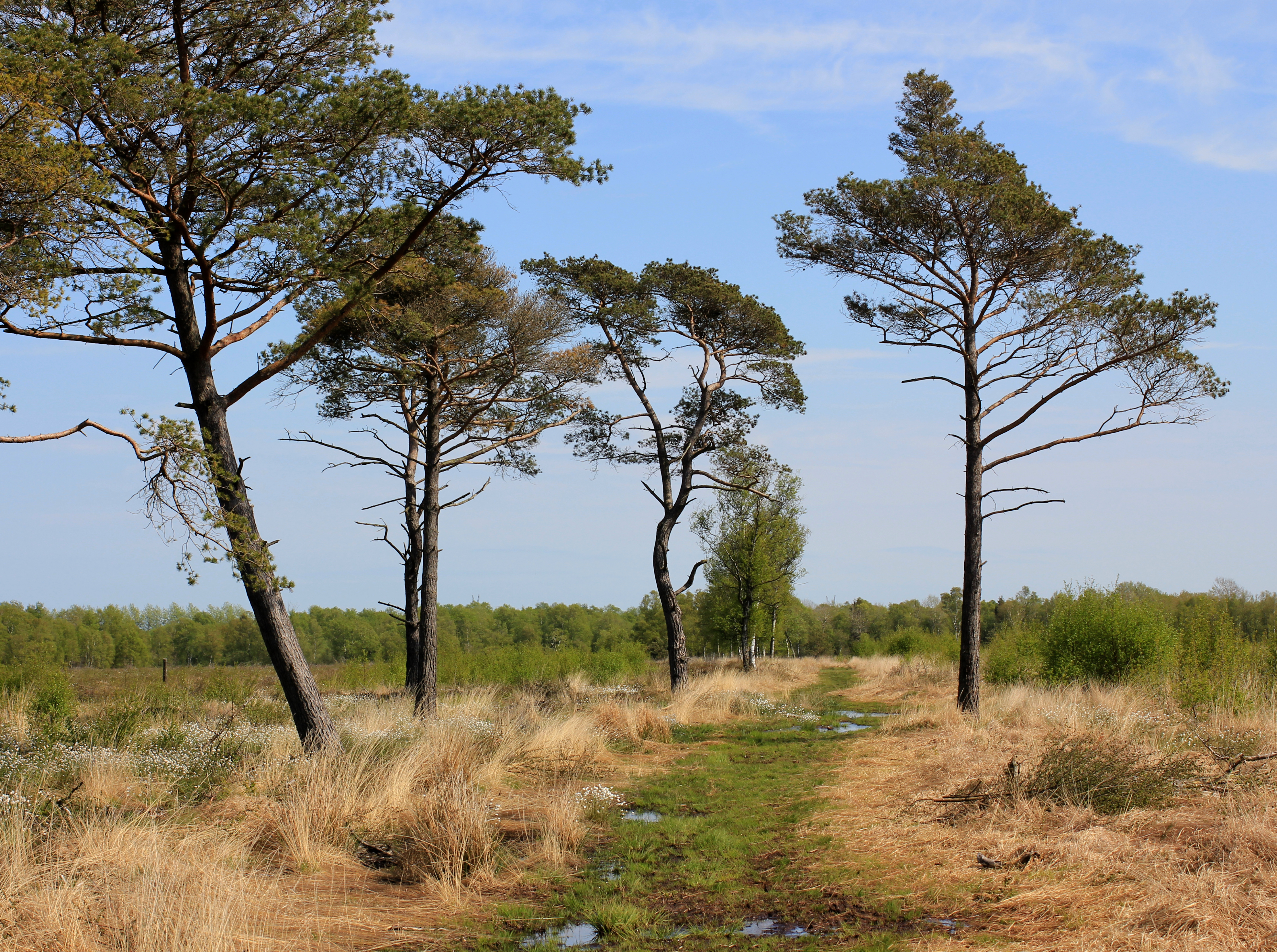 Svanemosen is 110 acres and is located six kilometers southwest of Kolding,Denmark. Svanemosen is a raised bog. In the past was dug much turf, and there can still be seen evident traces of the intense peat that occurred during the second World War II. The large lake in the middle of the bog has arisen as a result of peat digging